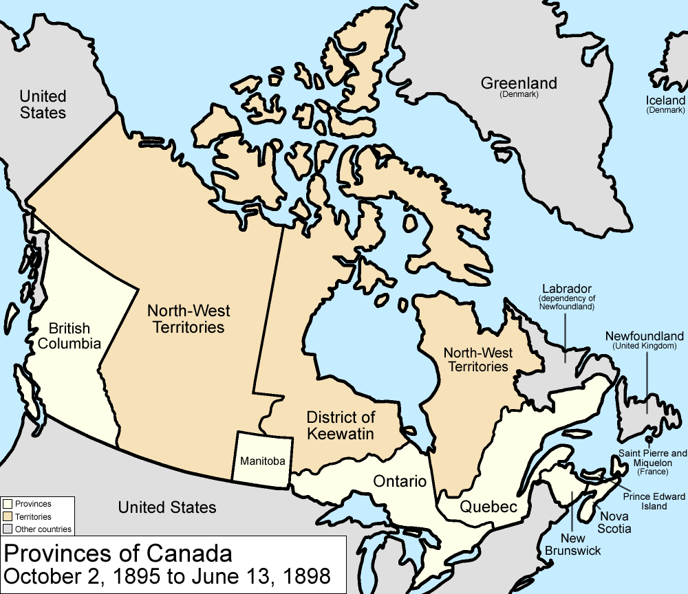 Map of the provinces and territories of Canada as they were from 1895 to 1898. In 1895, the District of Keewatin was enlarged. On June 13 1898, Yukon Territory is formed mostly from the District of Yukon in the North-West Territories, and Quebec is enlarged from land from the North-West Territories. Made by User:Golbez.